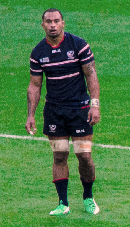 2015 Rugby World Cup game between South Africa and the United States played at the Olympic Stadium in London.